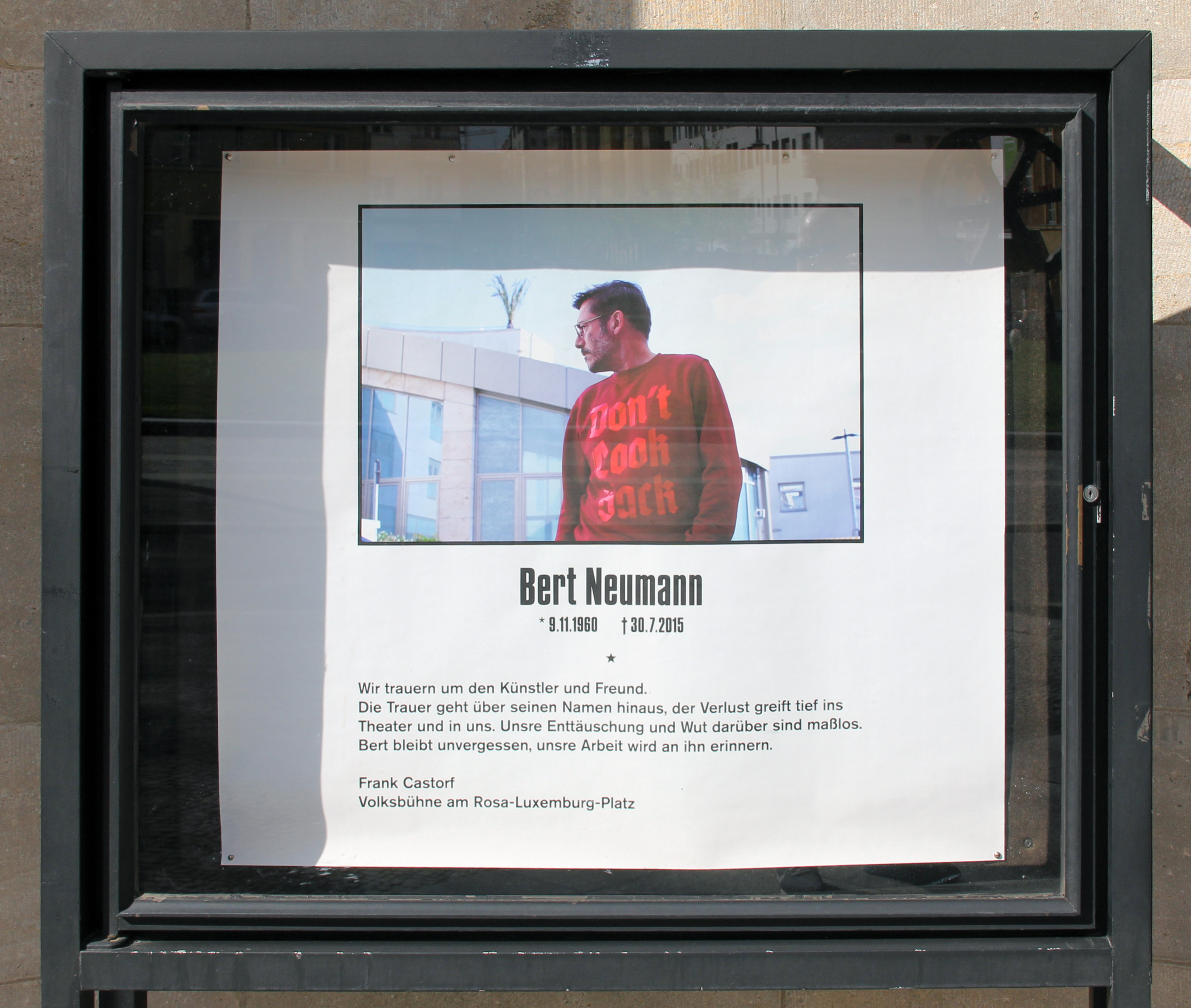 Memorial plaque, Bert Neumann, Rosa-Luxemburg-Platz 1, Berlin-Mitte, Deutschland